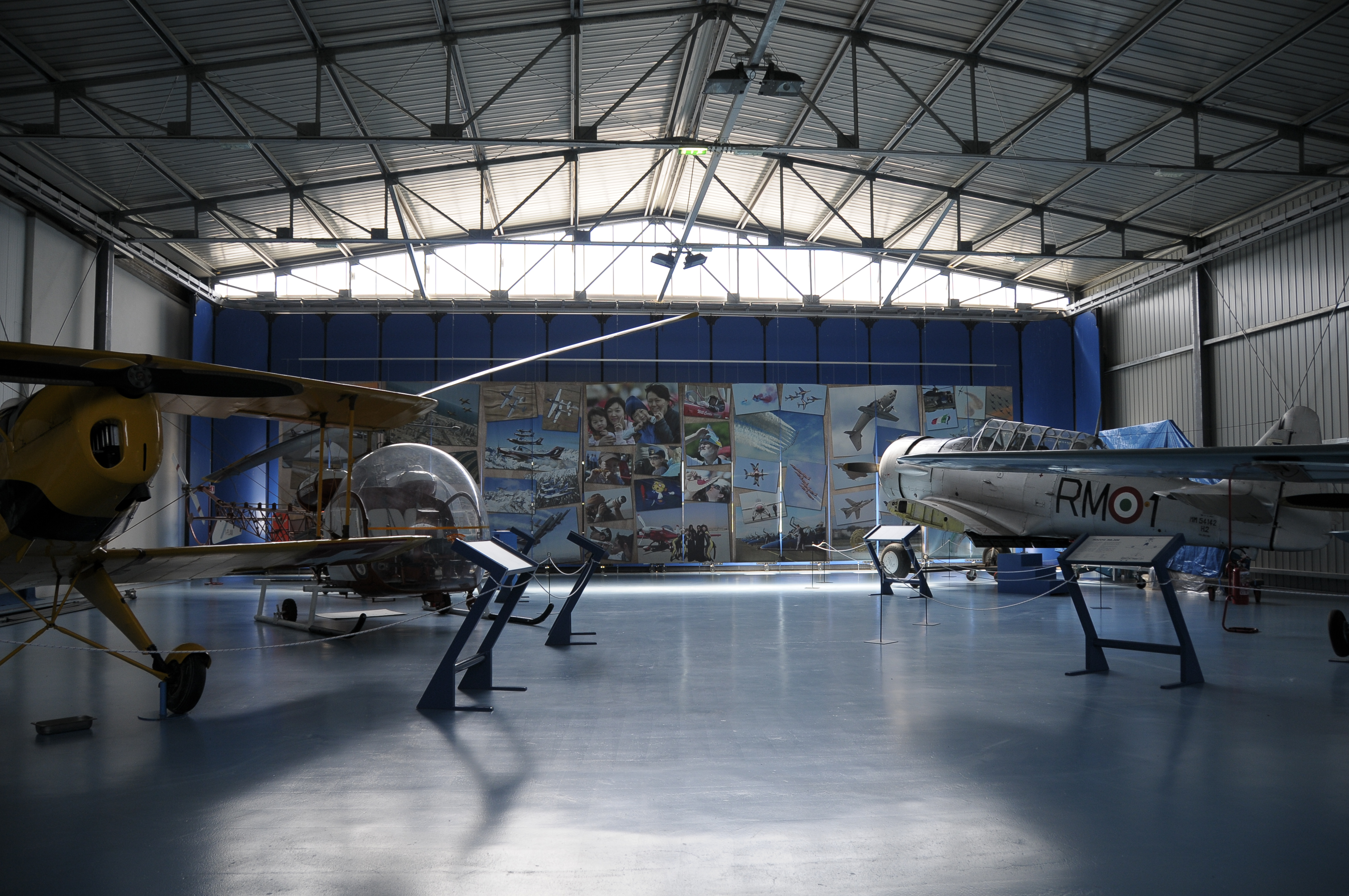 The norhern hangar of the Museo dell'Aeronautica Gianni Caproni in Trento, Italy, was opened for a few months in 2011.